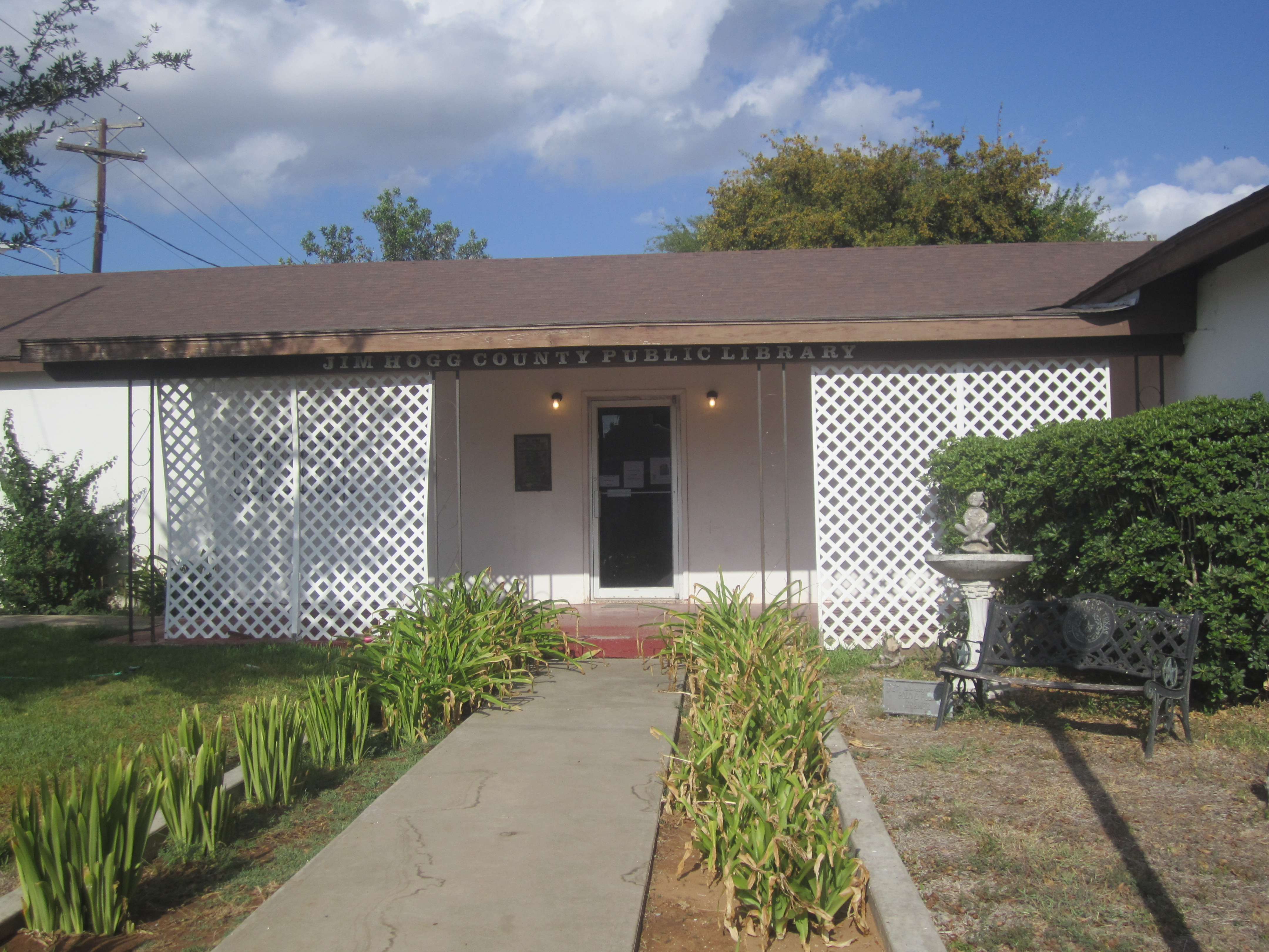 I took photo of Jim Hogg County Library in Hebbronville, TX, with Canon camera.